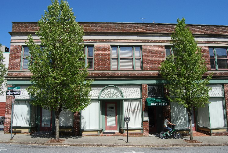 Samuel Building, Downtown New Bedford, Massachusetts